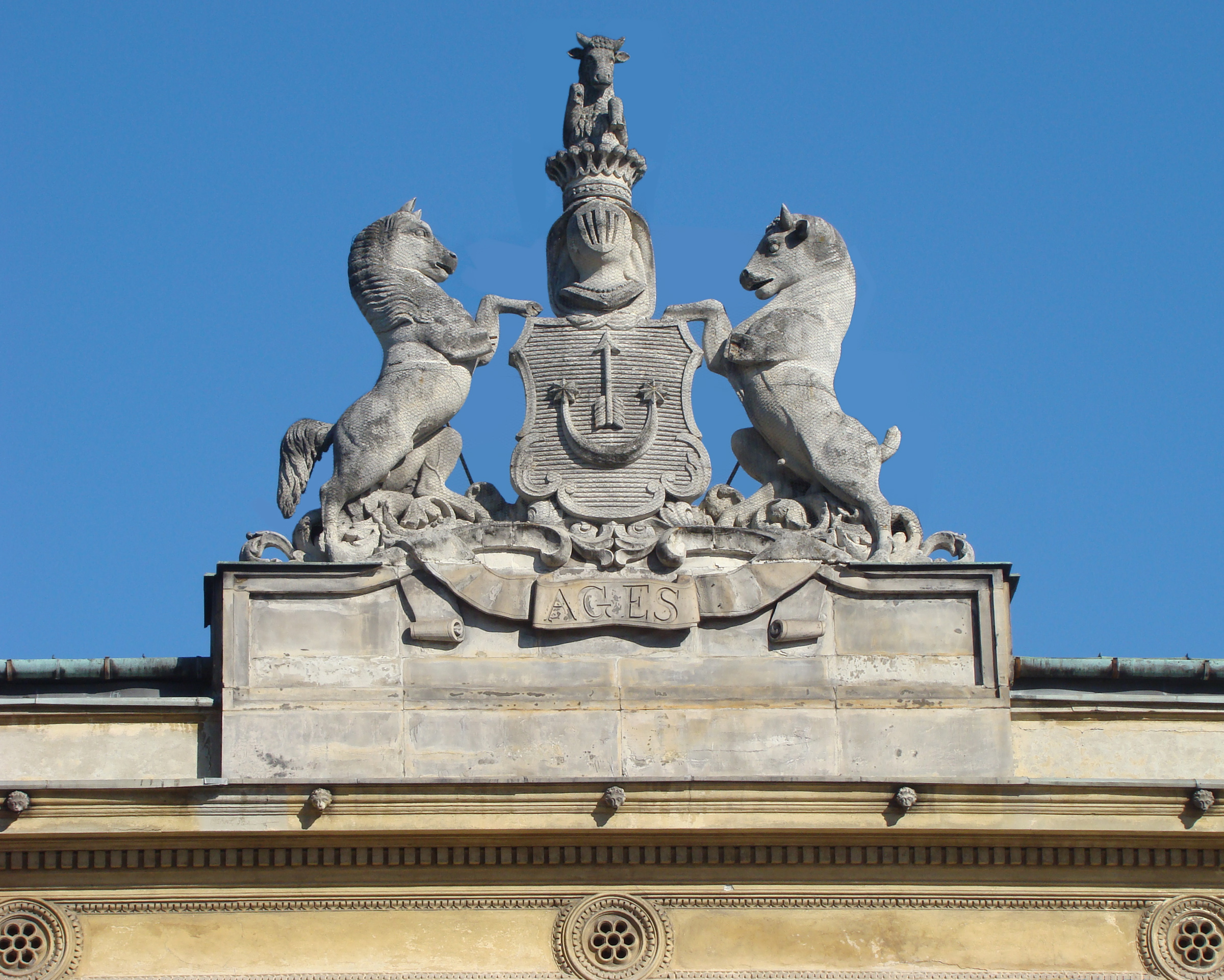 Panoplia of Uruski Palace, Warsaw